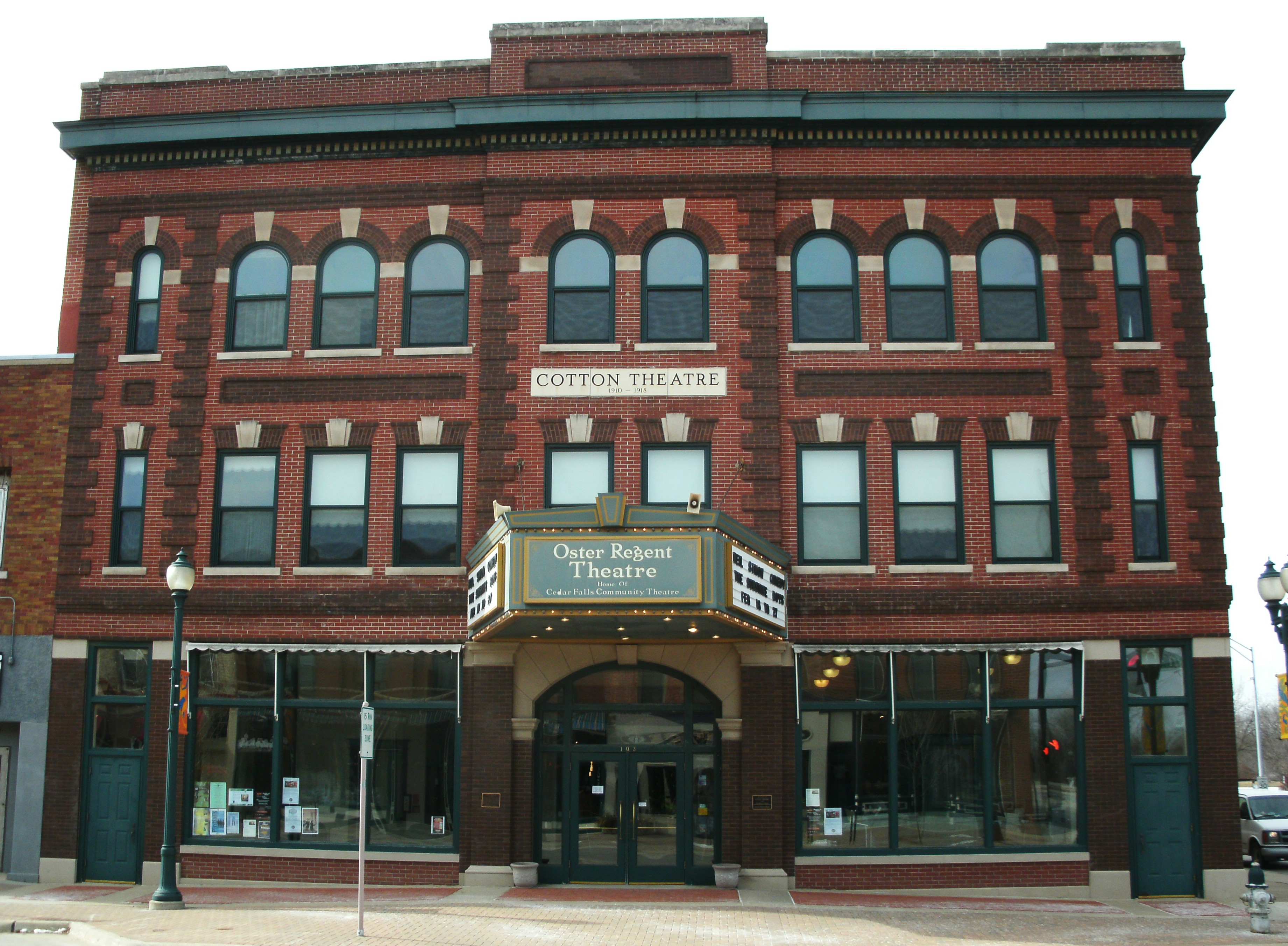 Cotton Theater located at 103 Main Street in Cedar Falls, Black Hawk County, Iowa is on the National Register of Historic Places